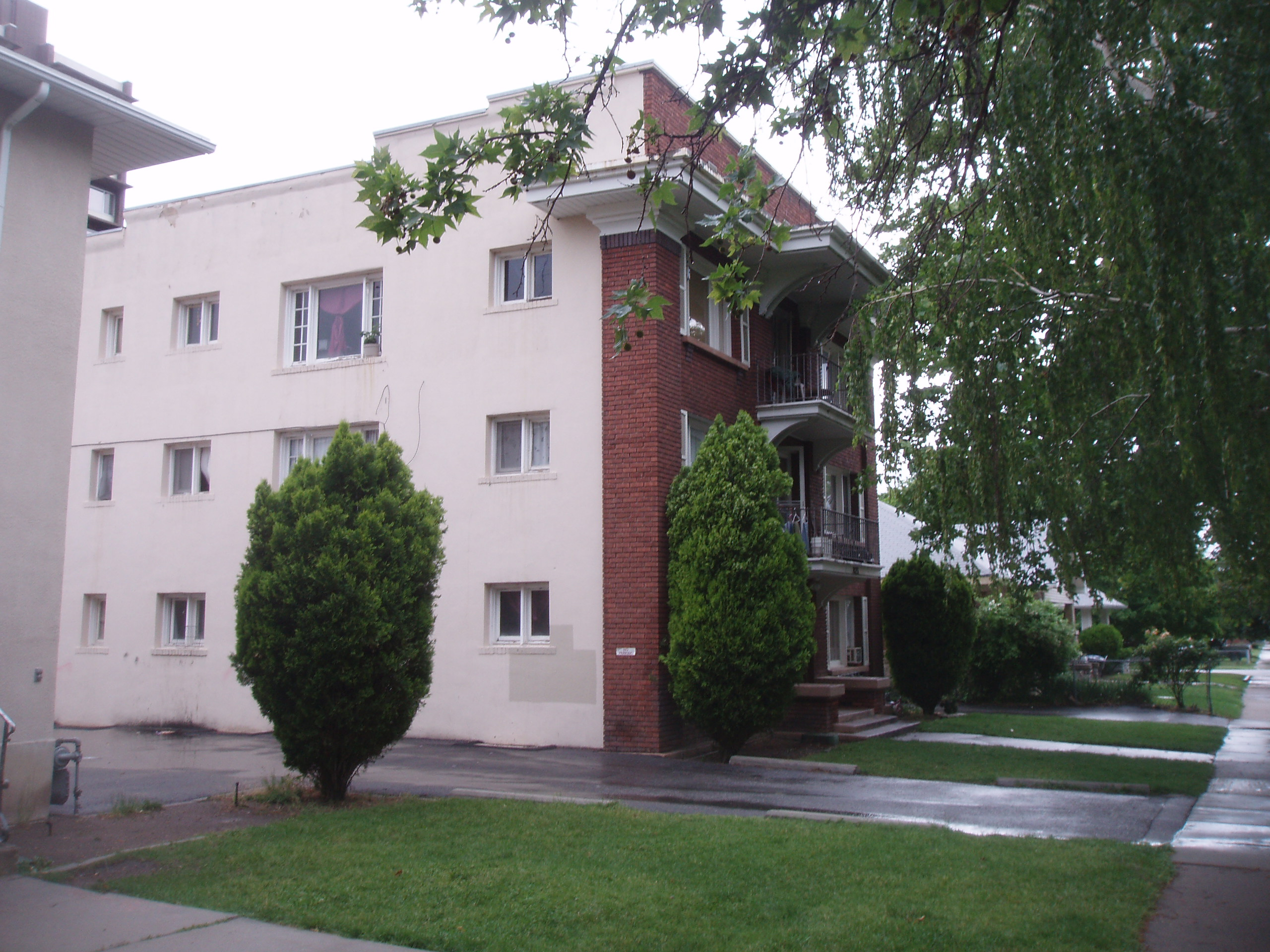 The Arvondor Apartments, a historic building in Ogden, Utah, United States.